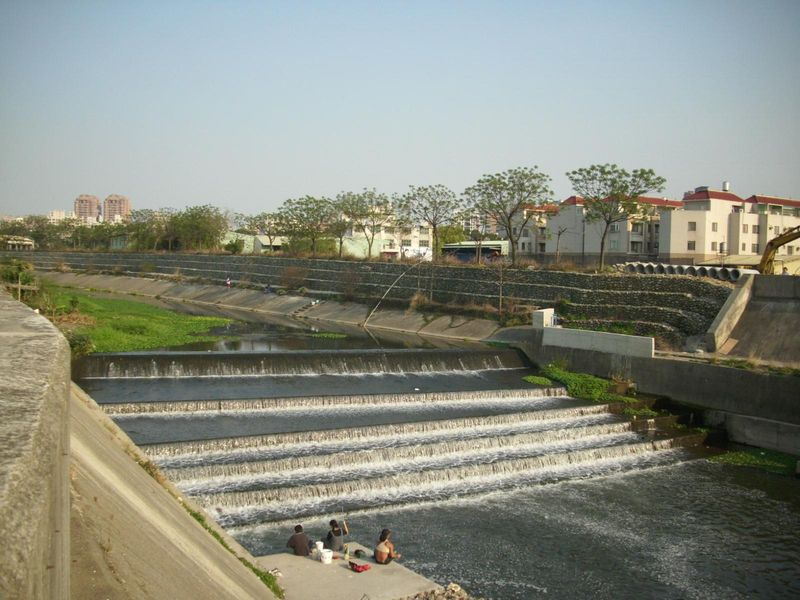 Position in the Taizhong Beitun area and Xitun District.